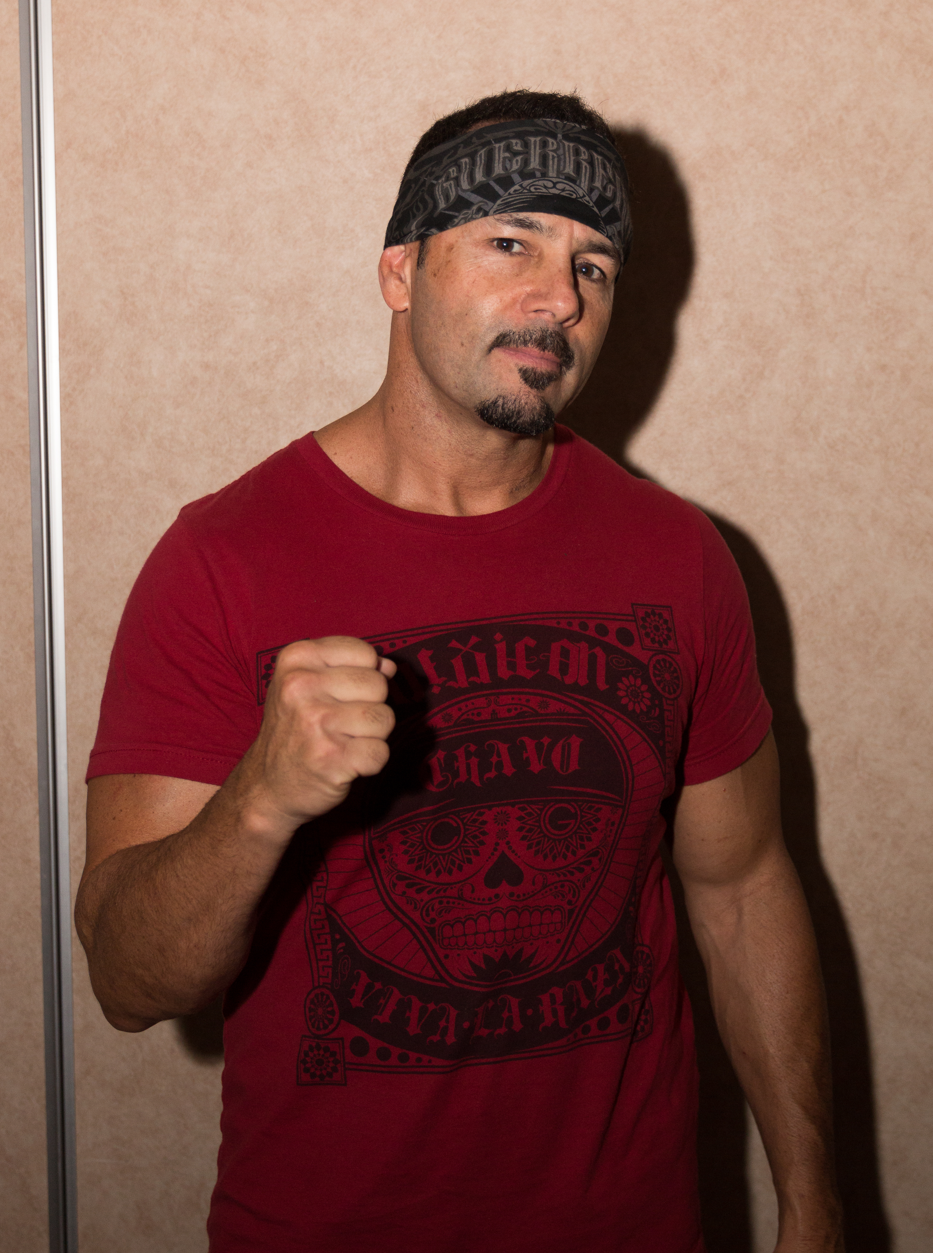 Chavo Guerrero posing at half-time at a Smash Wrestling show in Pickering, ON